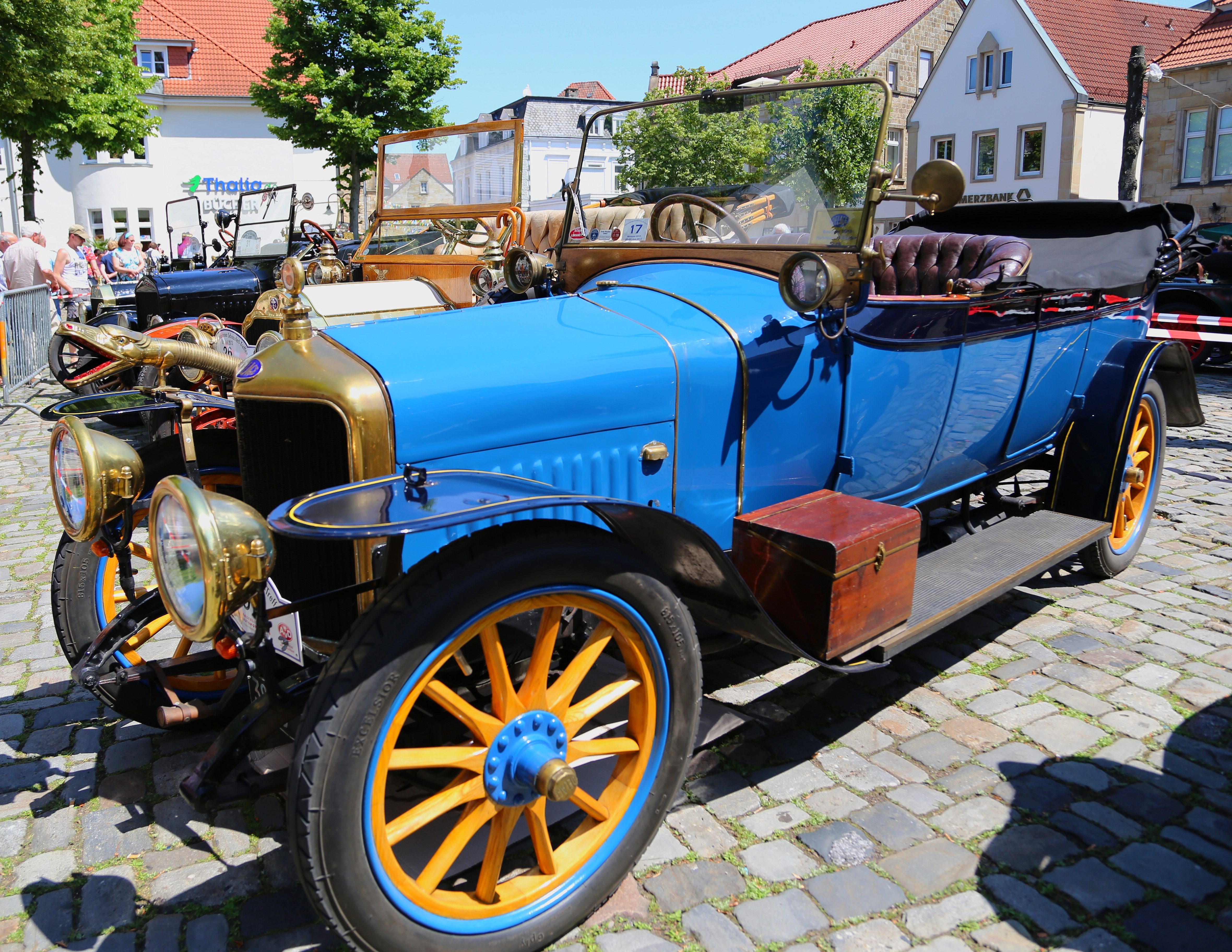 A 1915 Delage at the 23rd International Ibbenbüren Vintage Automobiles Meeting (23. Internationales Ibbenbürener Schnauferl-Treffen) in Ibbenbüren, Kreis Steinfurt, North Rhine-Westphalia, Germany. After the traditional Schnauferl Parade through the city centre the cars are on display at the churchyard of Christ Church.